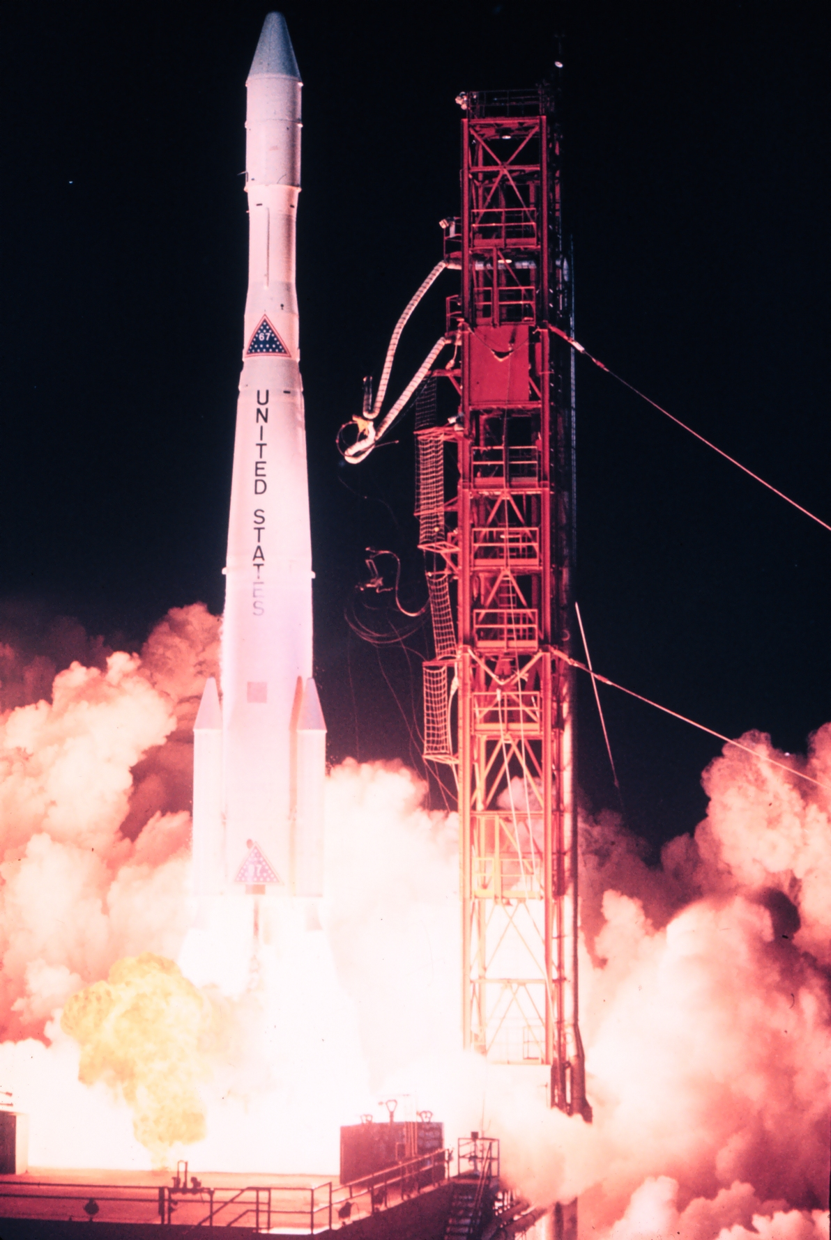 A night launch of meteorological satellite ESSA 9. Pre-launch designated TOS G. Delta #67.